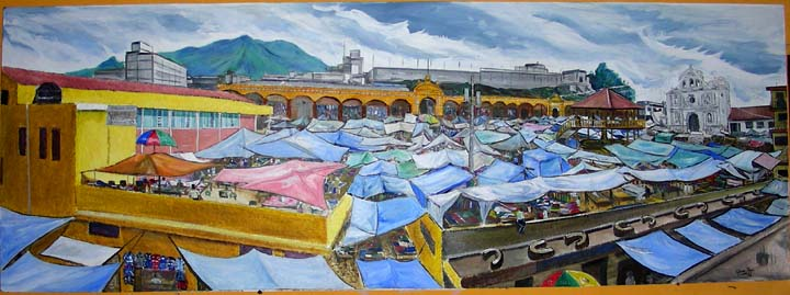 This painting depicts the market of San Francisco El Alto, and hangs in the municipal building.